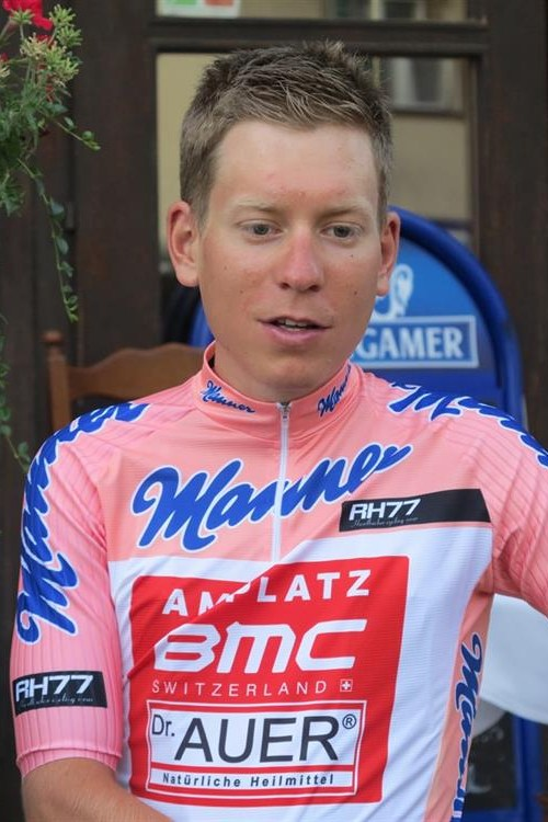 Cyclist Hermann Pernsteiner at an honor in Kirchschlag in der Buckligen Welt